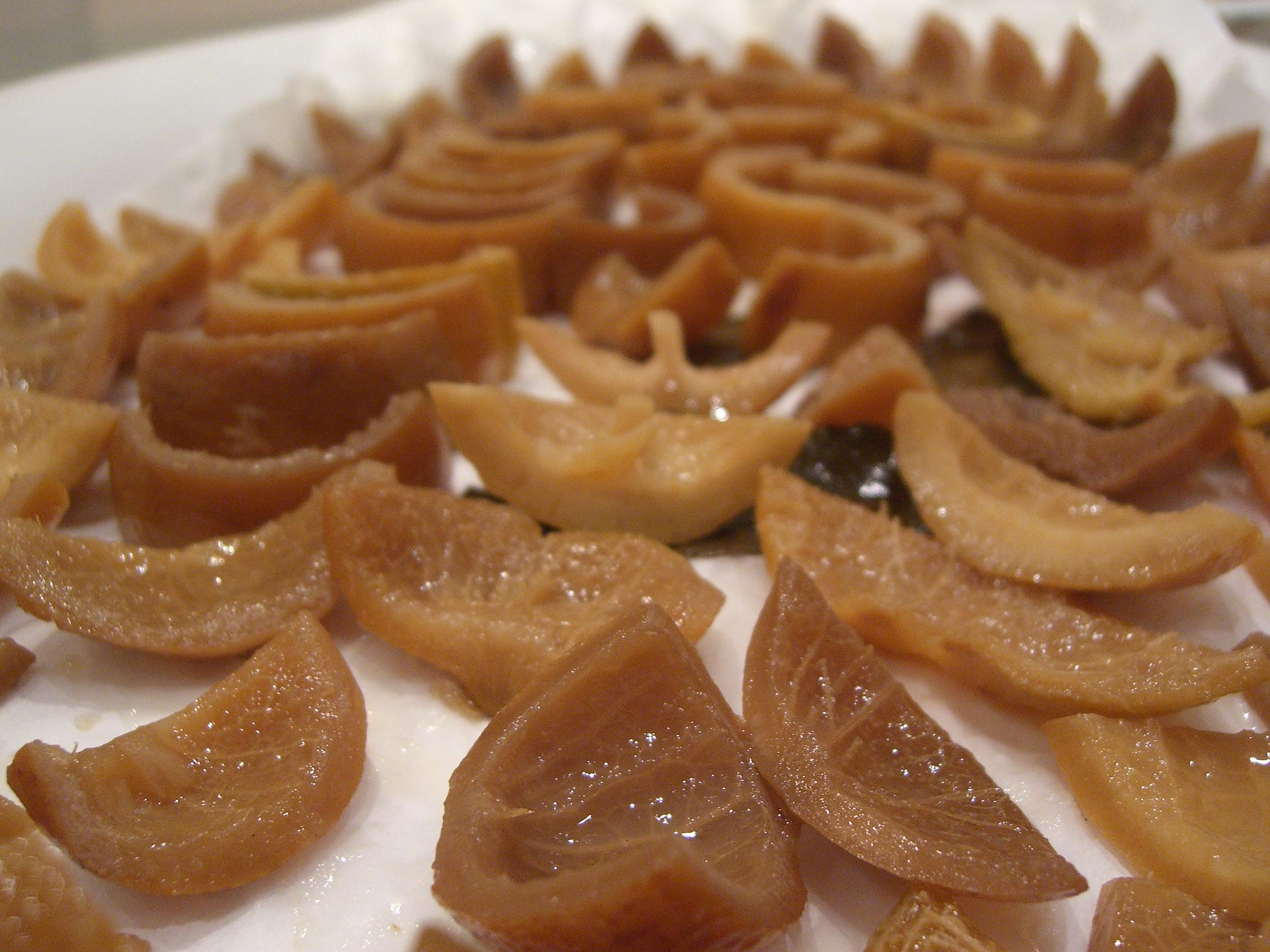 Preserved lemons